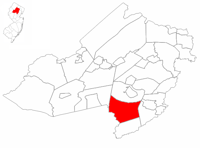 Position of Harding Township (highlighted in red) in Morris County. Morris County's position in New Jersey is in turn highlighted in red.